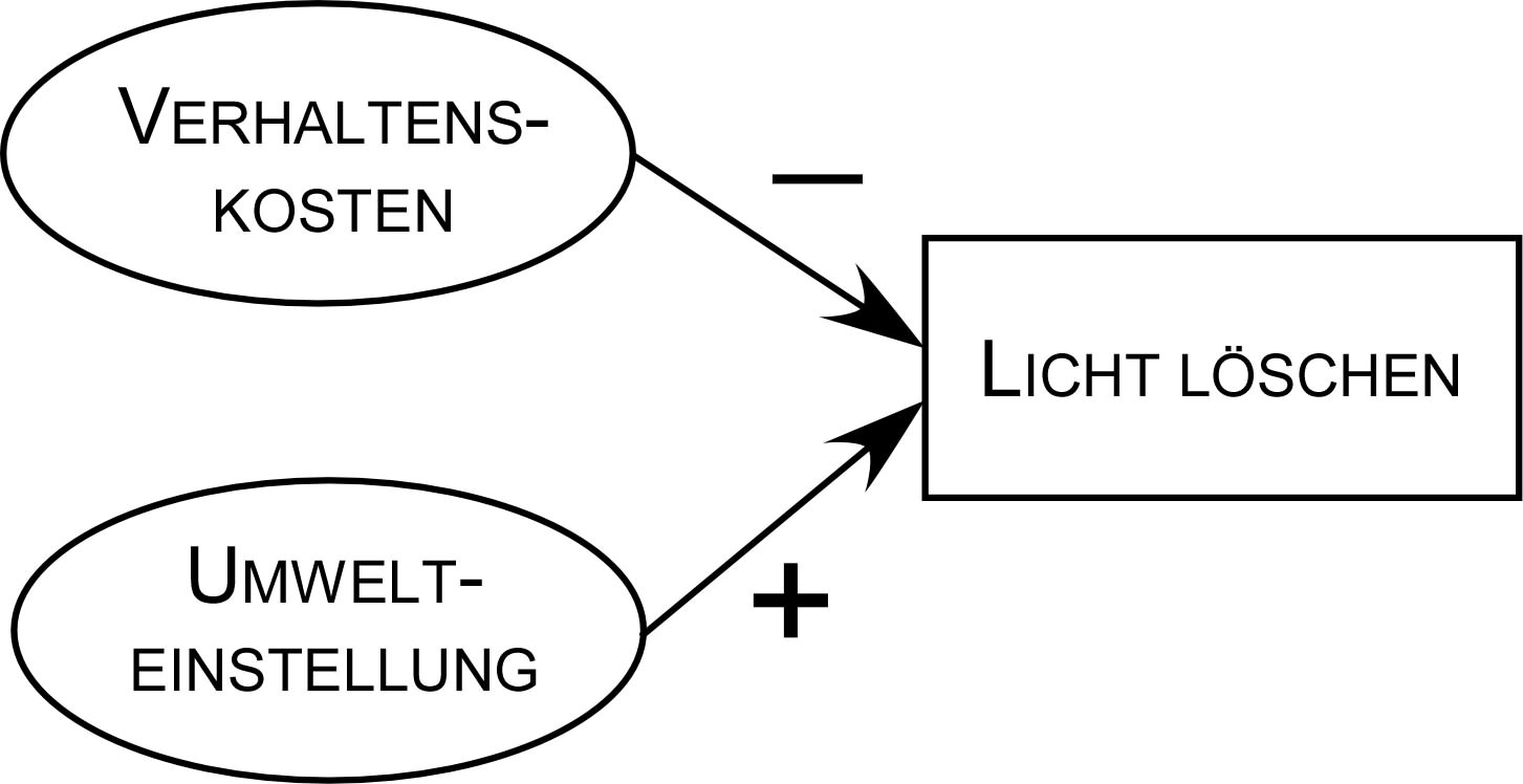 Pro-environmental behaviour is, according to Campbell's Paradigm, a function of environmental attitude and behavior costs.